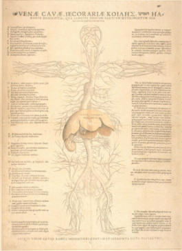 Versalius - 6 anatomy pieces